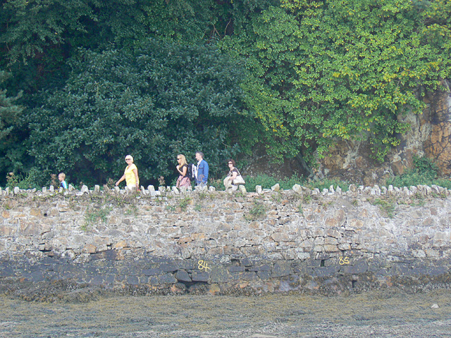 Cliff and path below Bodlondeb Woods Here the cliff face is covered in Ivy and other foliage.